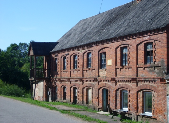 Malūno pastatas 2012 m.